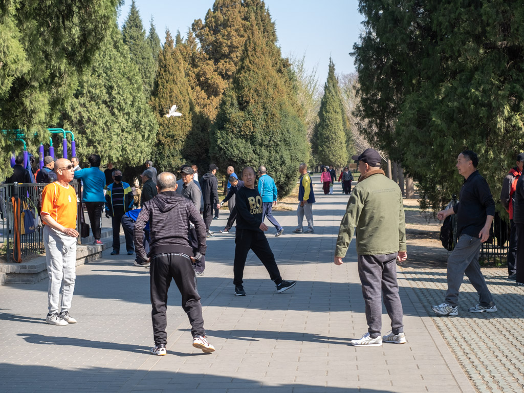 This is in the Temple_of_Heaven park in Beijing on a Tuesday morning in April. Jianzi is among many forms of exercise enjoyed here, mostly by people who appear to be retired.